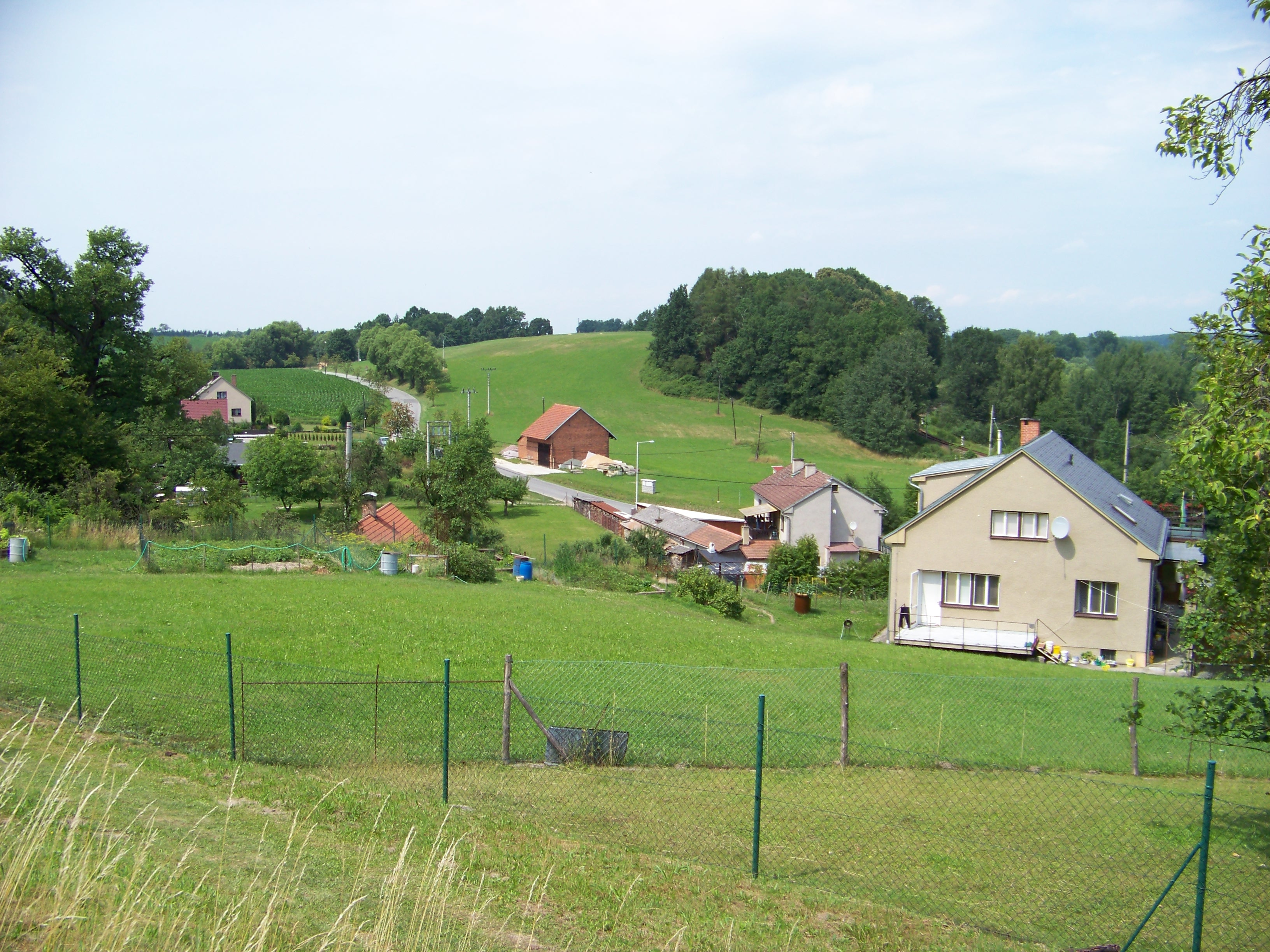 Běstovice, Ústí nad Orlicí District, Pardubice Region, the Czech Republic. Darebnice. - OpenStreetMap(Info)